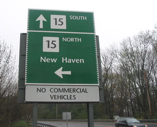 none